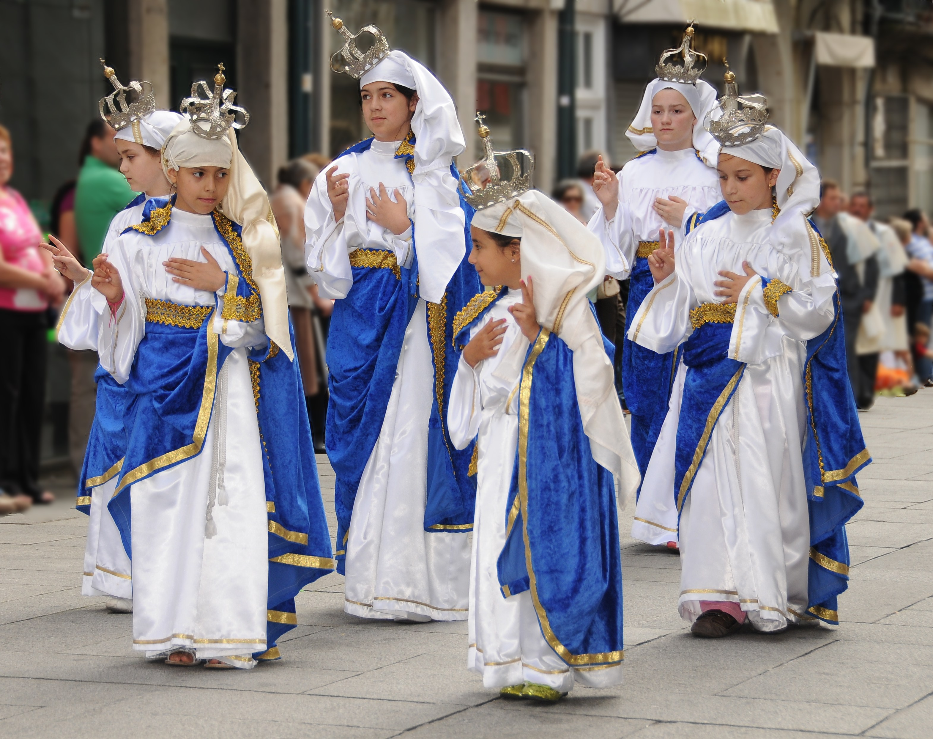 Girls dressed as Our Lady of Sameiro in Procession of the Saints of Month of June, in Braga, Portugal.